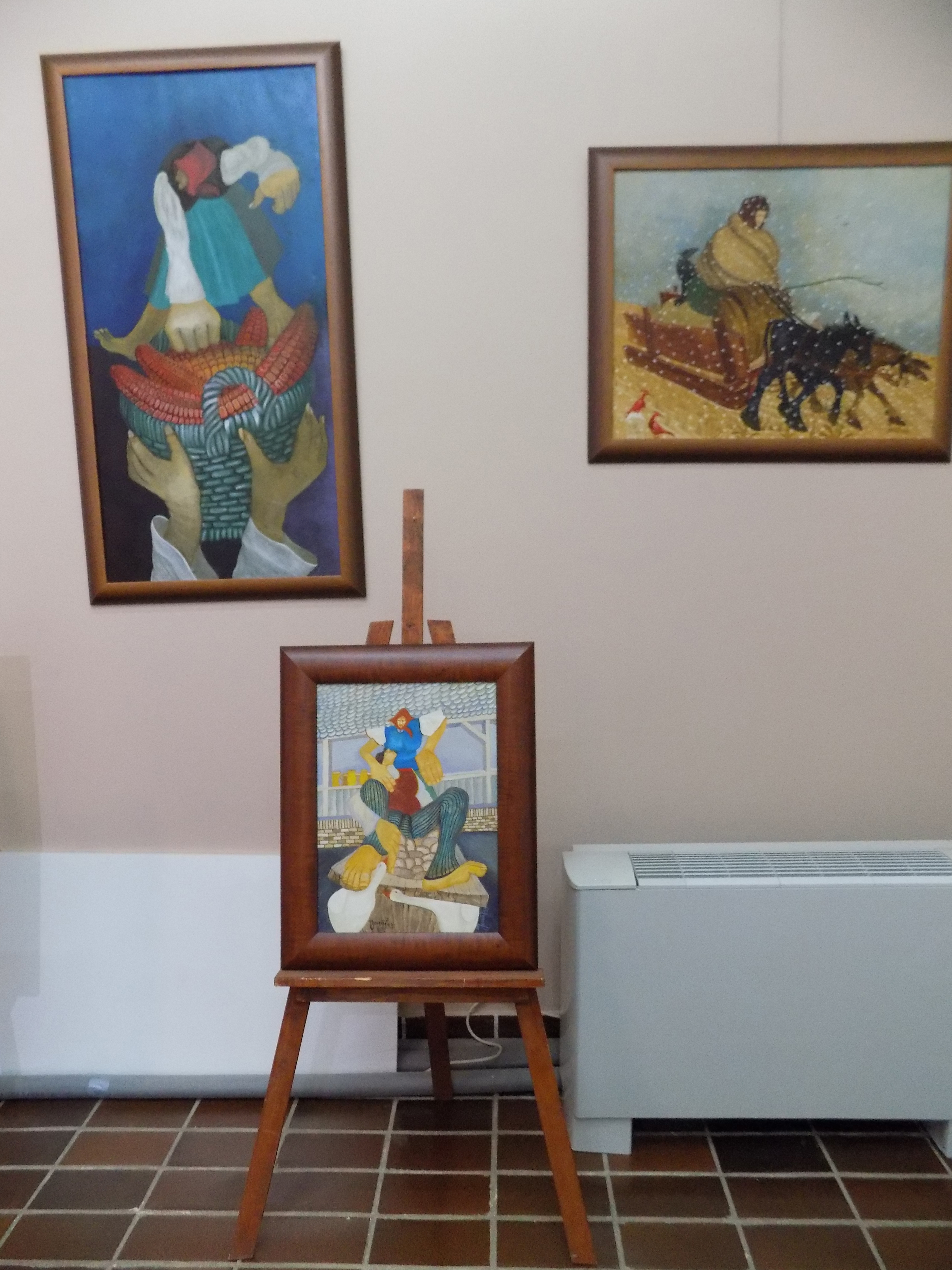 Paintings of the ancestor of Kovačica naive painting in the Gallery of Naive Art in Kovačica